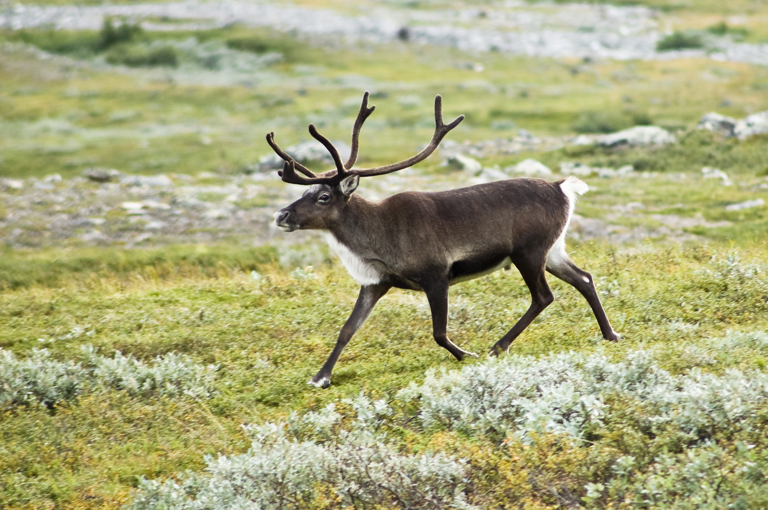 Strolling reindeer (Rangifer tarandus) in the Kebnekaise valley, Lappland, Sweden.